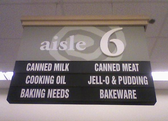 An aisle sign in a supermarket, with "JELL-O" being used generically. Taken at the Giant supermarket on Centerville Road in Lancaster, Pennsylvania.